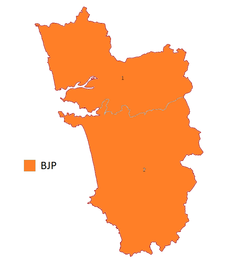 Seat Sharing of NDA in Goa in General Election, 2019